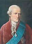 Painting of Peter Hersleb Classen (1738-1825), Danish statesman and businessman